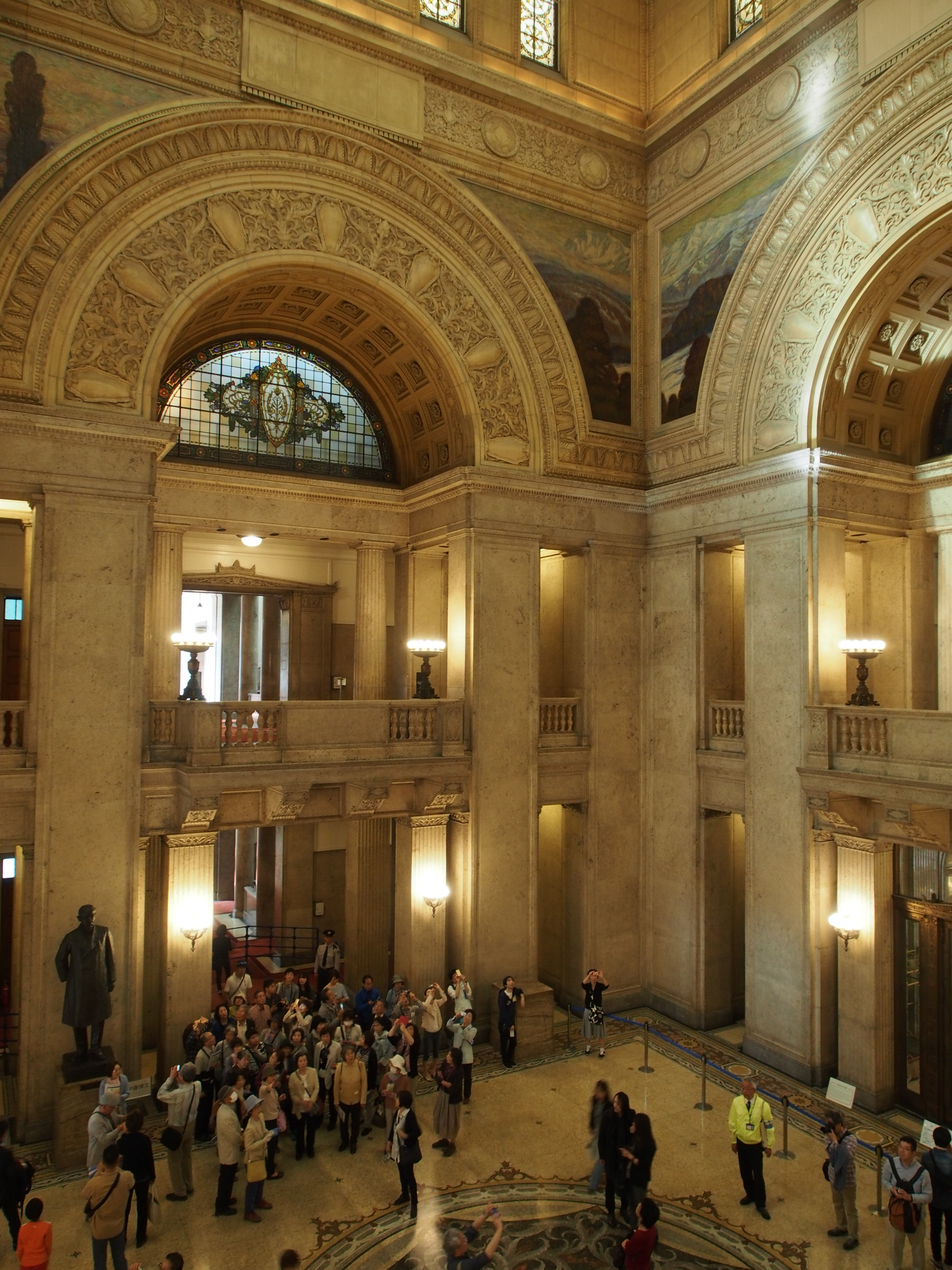 Central Hall of the National Diet of Japan. Photographed on the Open House day of the House of the Representative for the 70th Anniversary of the Enactment of the Constitution.